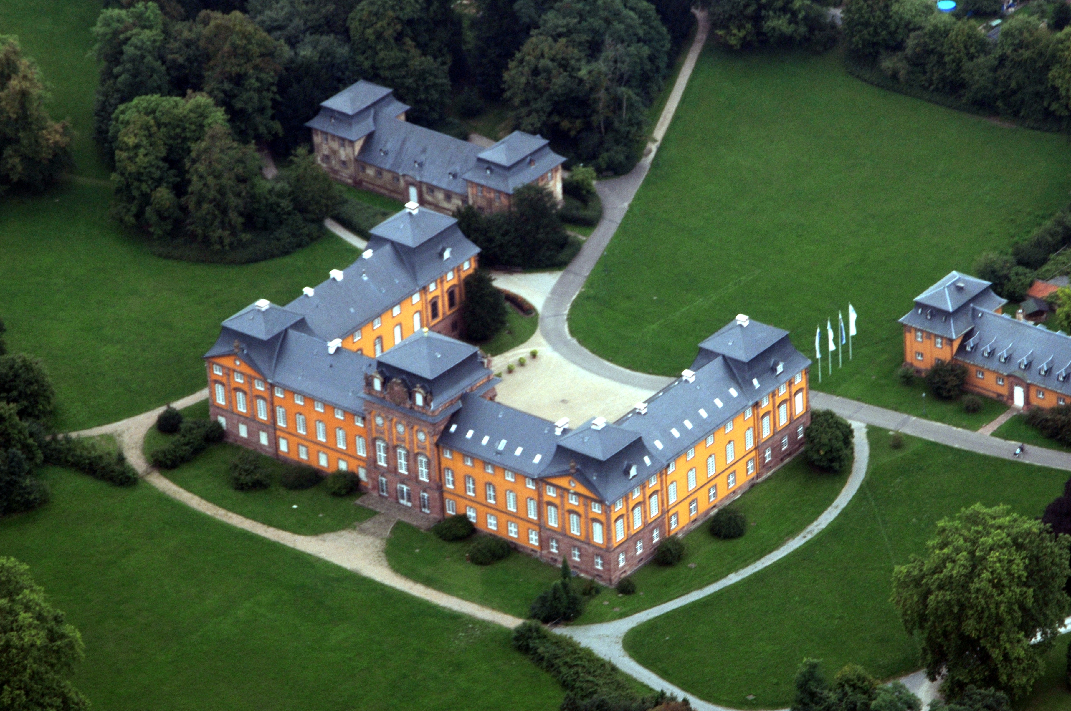 Schloss der Fürsten zu Löwenstein, Kleinheubach, Bavaria, Germany, aerial photograph